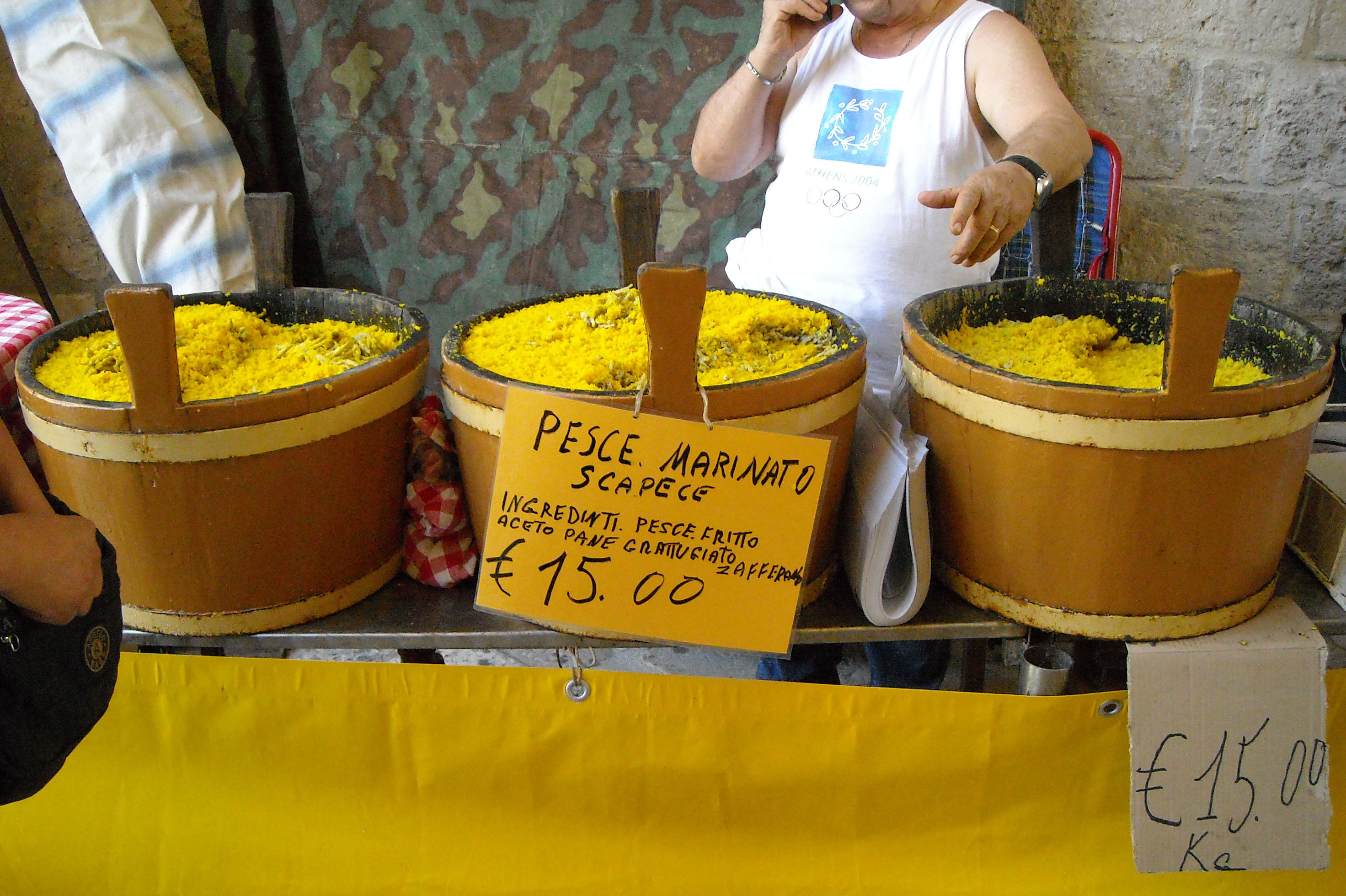 Roadside stand selling "scapece" in Otranto (Lecce, Italy)